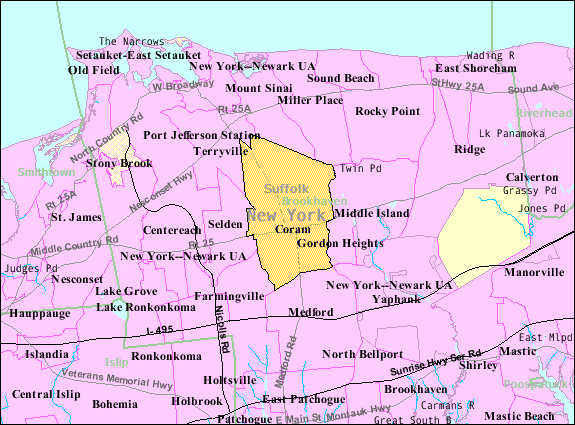 U.S. Census 2000 reference map for Coram